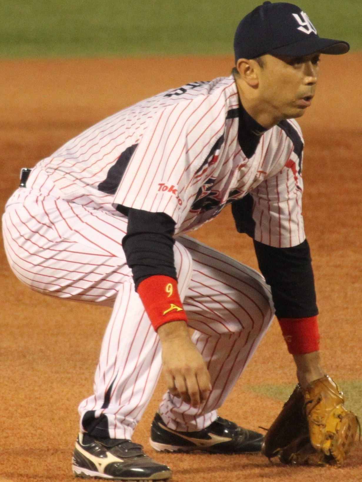 Shinya Miyamoto, infielder of the Tokyo Yakult Swallows, at Meiji Jingu Stadium.